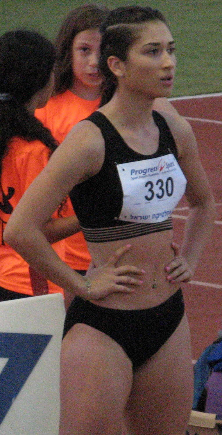 The Israeli sprinter Diana Vaisman during the 1st day of the Israel track and field championship 2016.